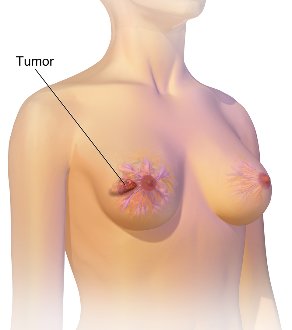 Breast Cancer. See a full animation of this medical topic.